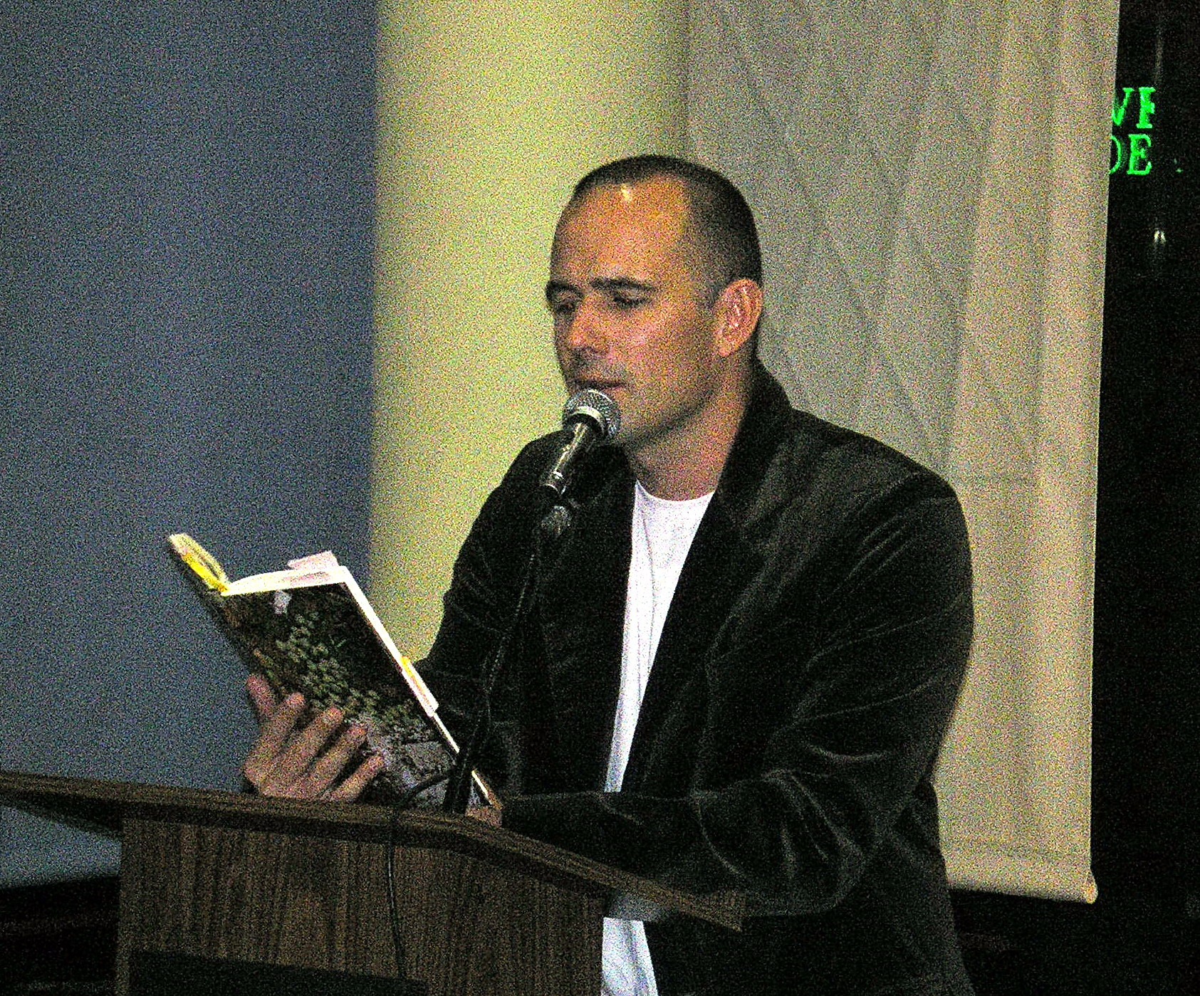 Mark Z. Danielewski by David Shankbone, New York City